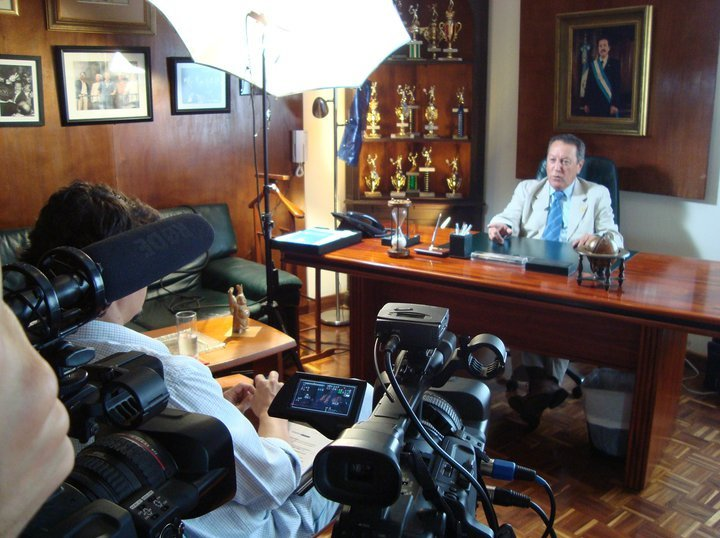 para contribuir a contar la historia de la Integración Centroamericana, una historia que es sumamente importante para el desarrollo de nuestros pueblos y que necesita ser contada